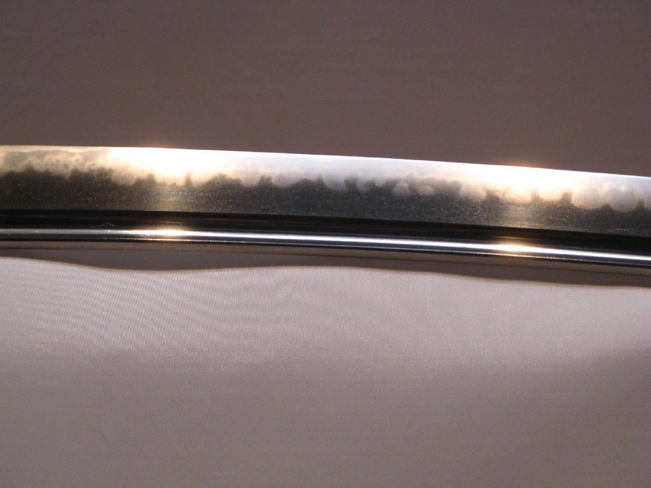 The hamon (temper line) of a traditional Japanese sword (nihonto).